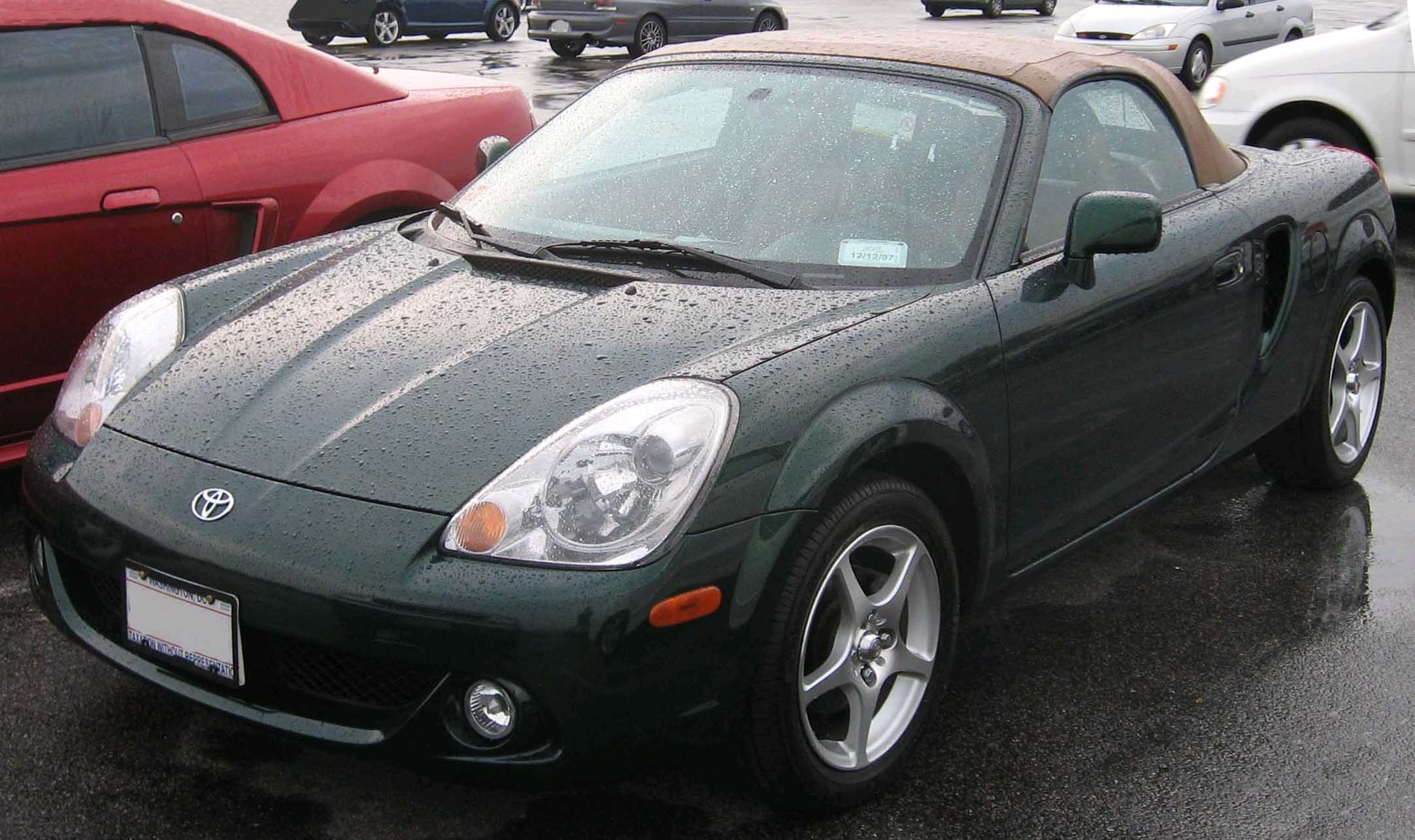 2003-2005 Toyota MR-2 photographed in Waldorf, Maryland, USA.